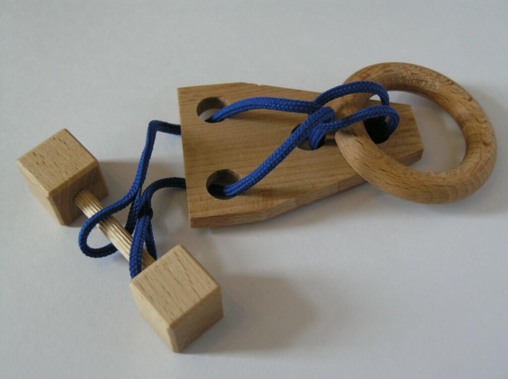 wooden corded puzzles